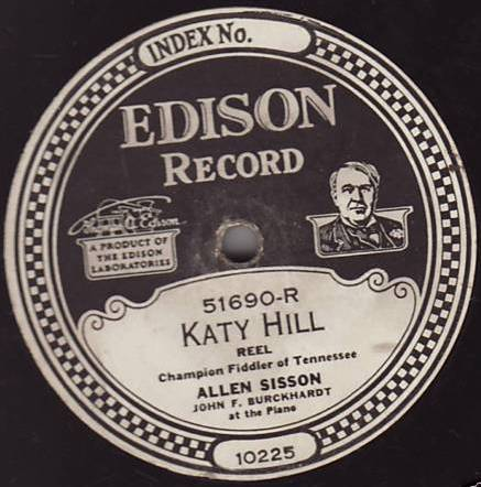 Katy Hill by Allen Sisson, Edison 1925.